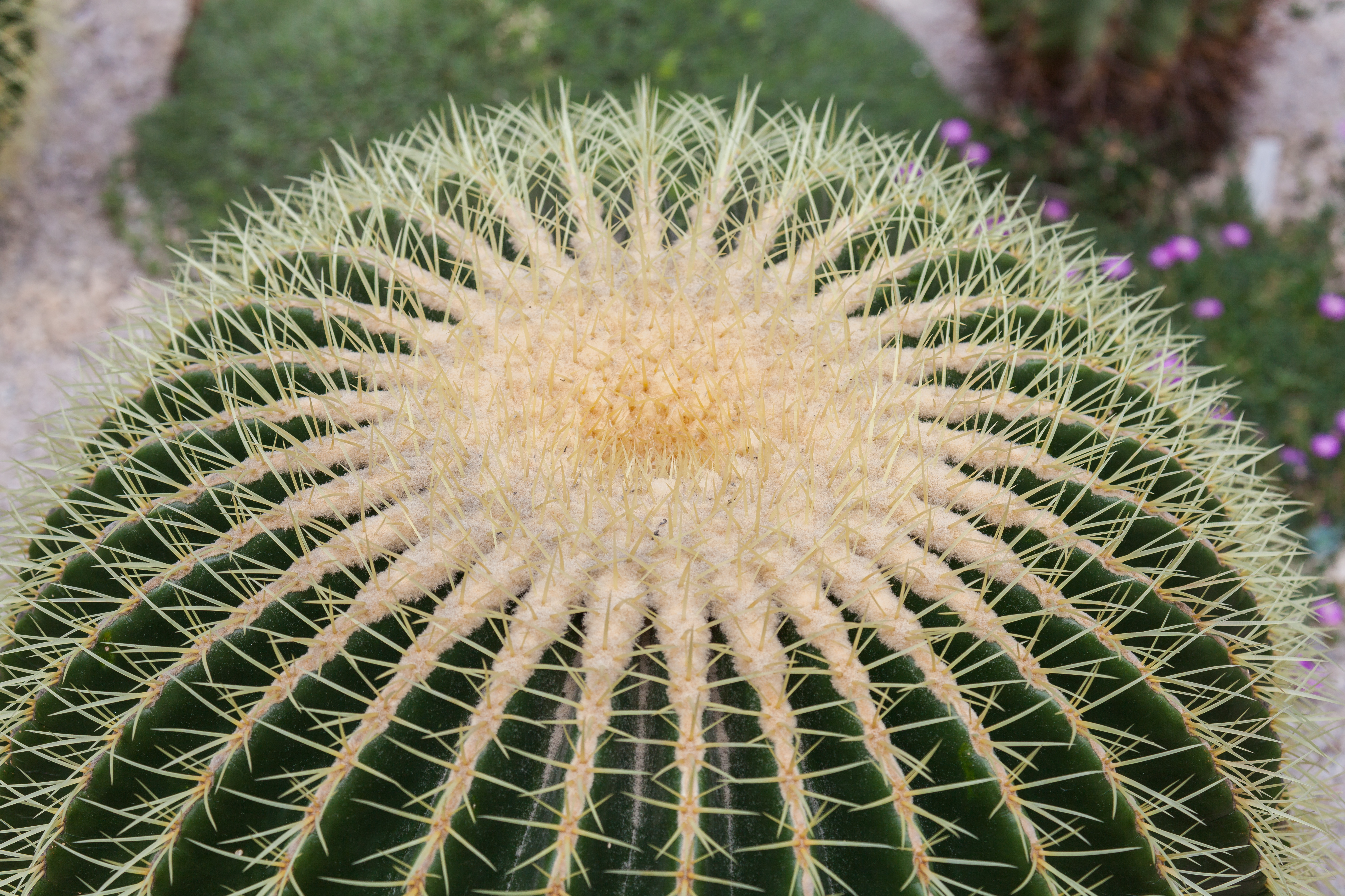 Golden Barrel Cactus (Echinocactus grusonii), Munich Botanical Garden, Germany